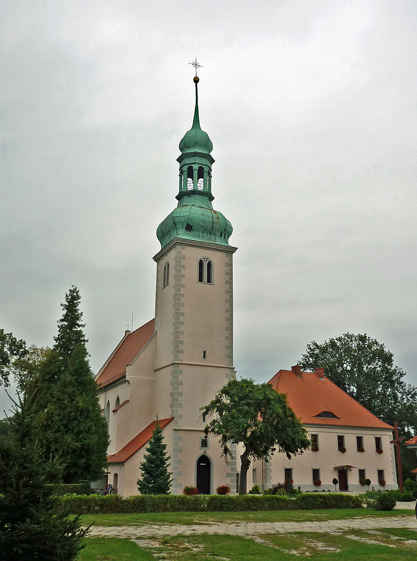 Church of the Assumption in Nowogród Bobrzański, Poland